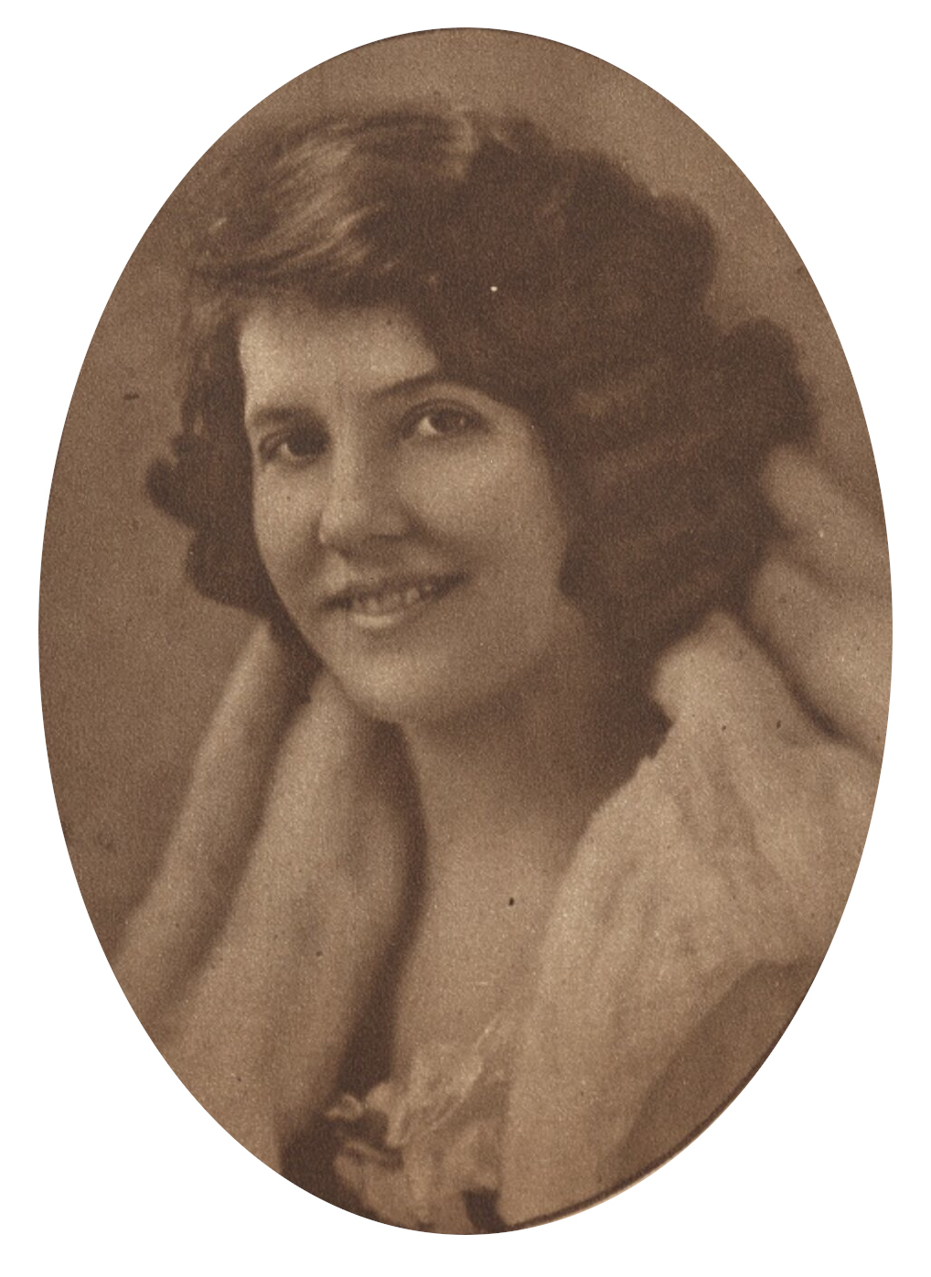 Gertrude Vanderbilt, appearing in Listen, Lester